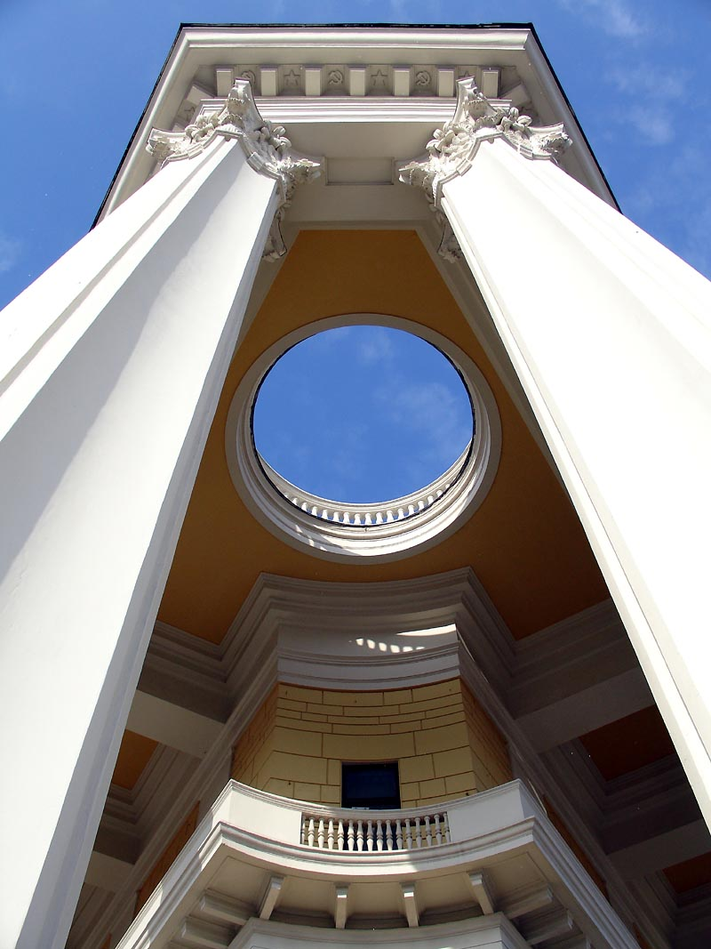 Red Army Theater, Moscow (1938, by Karo Alabyan) detail